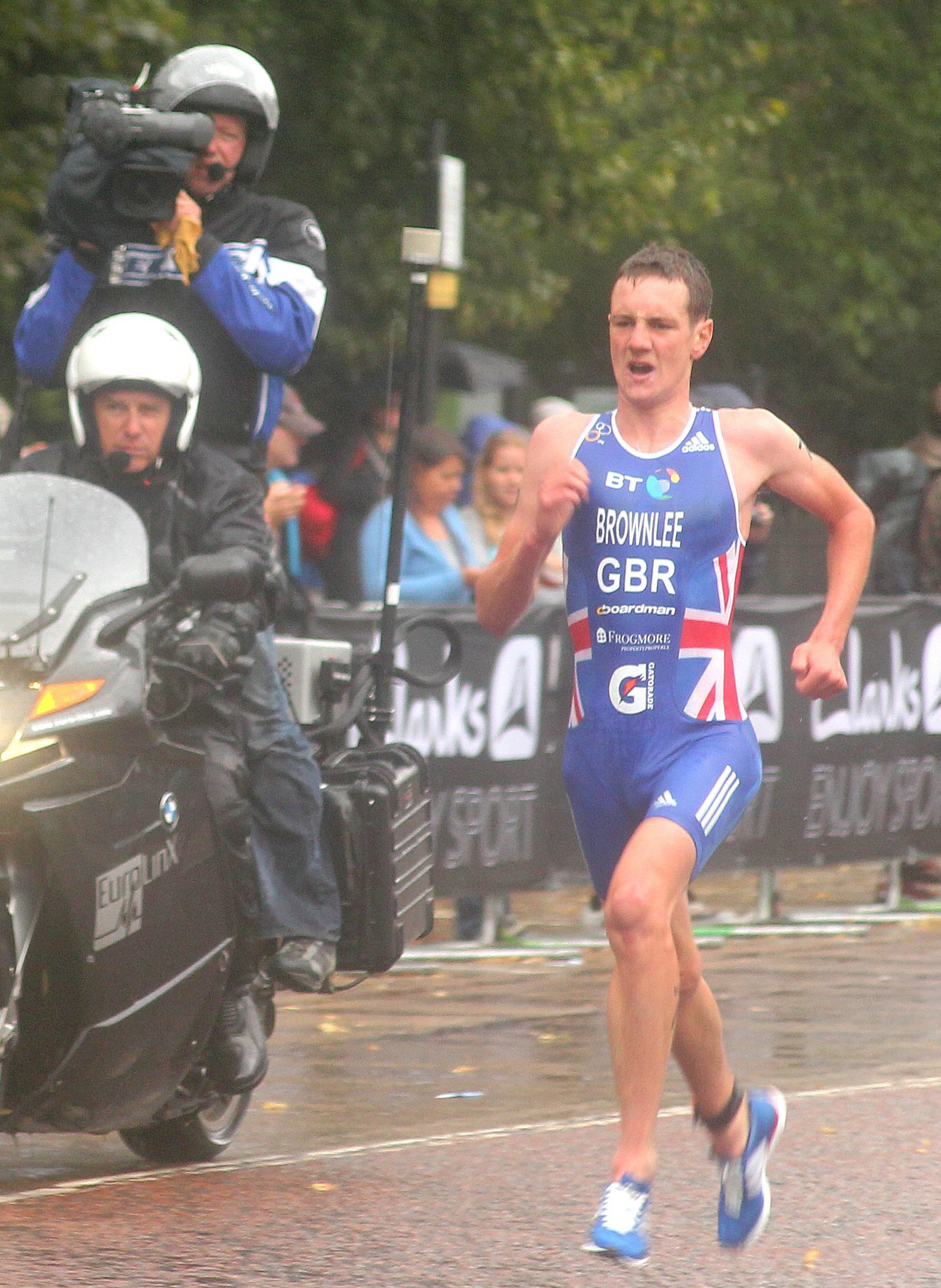 Alistair Brownlee wins the Hyde Park Triathlon, August 201